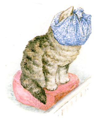 Illustration of Miss Moppet with the duster tied on her head from The Story of Miss Moppet